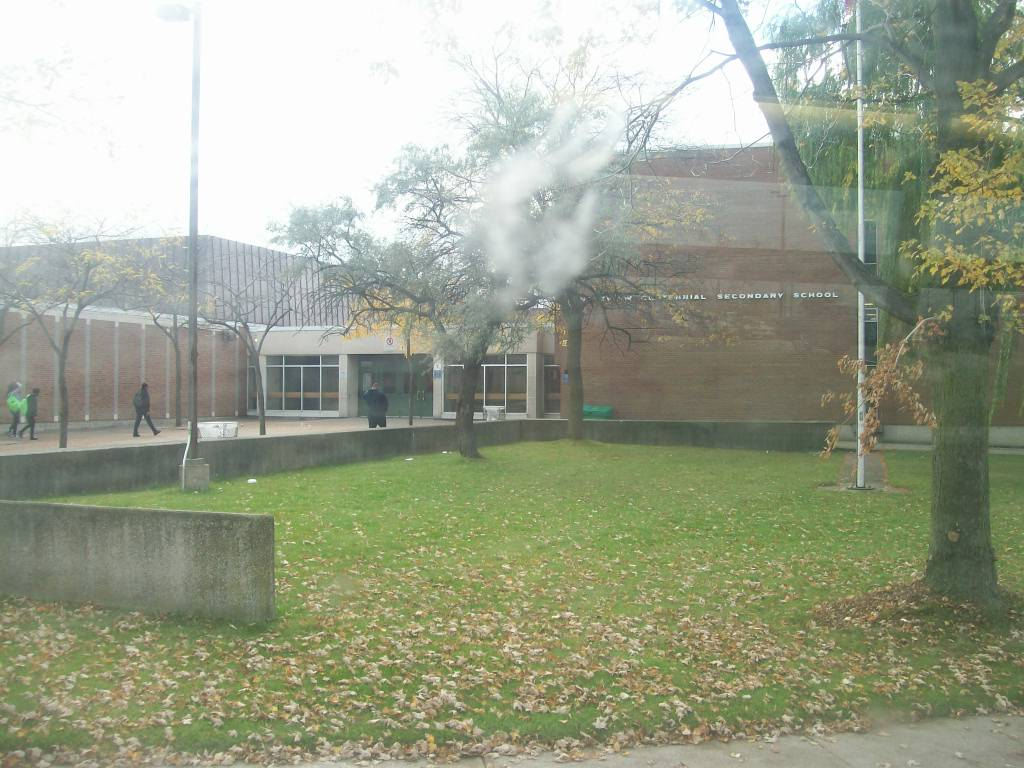 View of Westview Centennial Secondary School